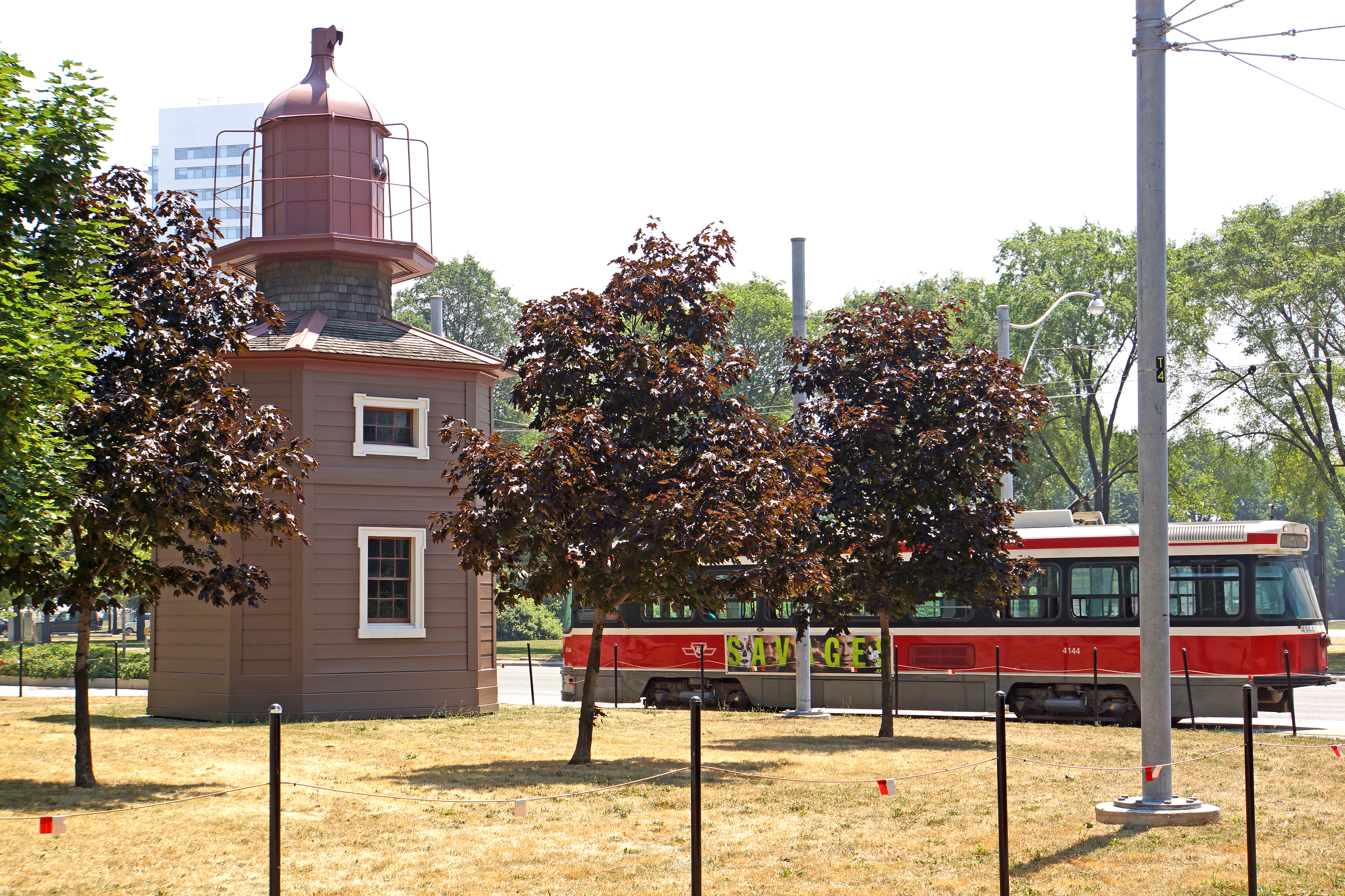 PLEASE, no multi invitations, glitters or self promotion in your comments, THEY WILL BE DELETED. My photos are FREE for anyone to use, just give me credit and it would be nice if you let me know, thanks - NONE OF MY PICTURES ARE HDR. The Queen's Wharf Lighthouse (also known as the Fleet Street Lighthouse, after its current location) is located at Fleet Street just east of the Princes' Gates at the Exhibition Place Grounds in Toronto. The octagonal building was originally part of a pair of lighthouses built in 1861 at Queen's Wharf, replacing an earlier lighthouse originally built in 1838. The 11m (36ft) three-storey wood structure is one of two major lighthouses in Toronto harbour. The building is a bare frame structure, and was never meant to be used as a dwelling by a lighthouse keeper. It currently sits at the edge of a small park about one block north from the current shoreline, and is contained within a small Toronto Transit Commission streetcar loop.